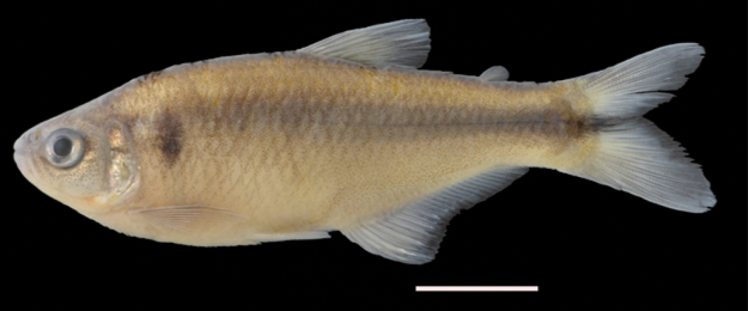 Hemibrycon sanjuanensis sp. n., holotype IUQ 3693. 53.5 mm SL, Colombia, Risaralda State, Pueblo Rico Municipality, El Recreo, upper San Juan River Basin, Aguas Claras River, tributary of the Tatamá River. Scale 1 cm.